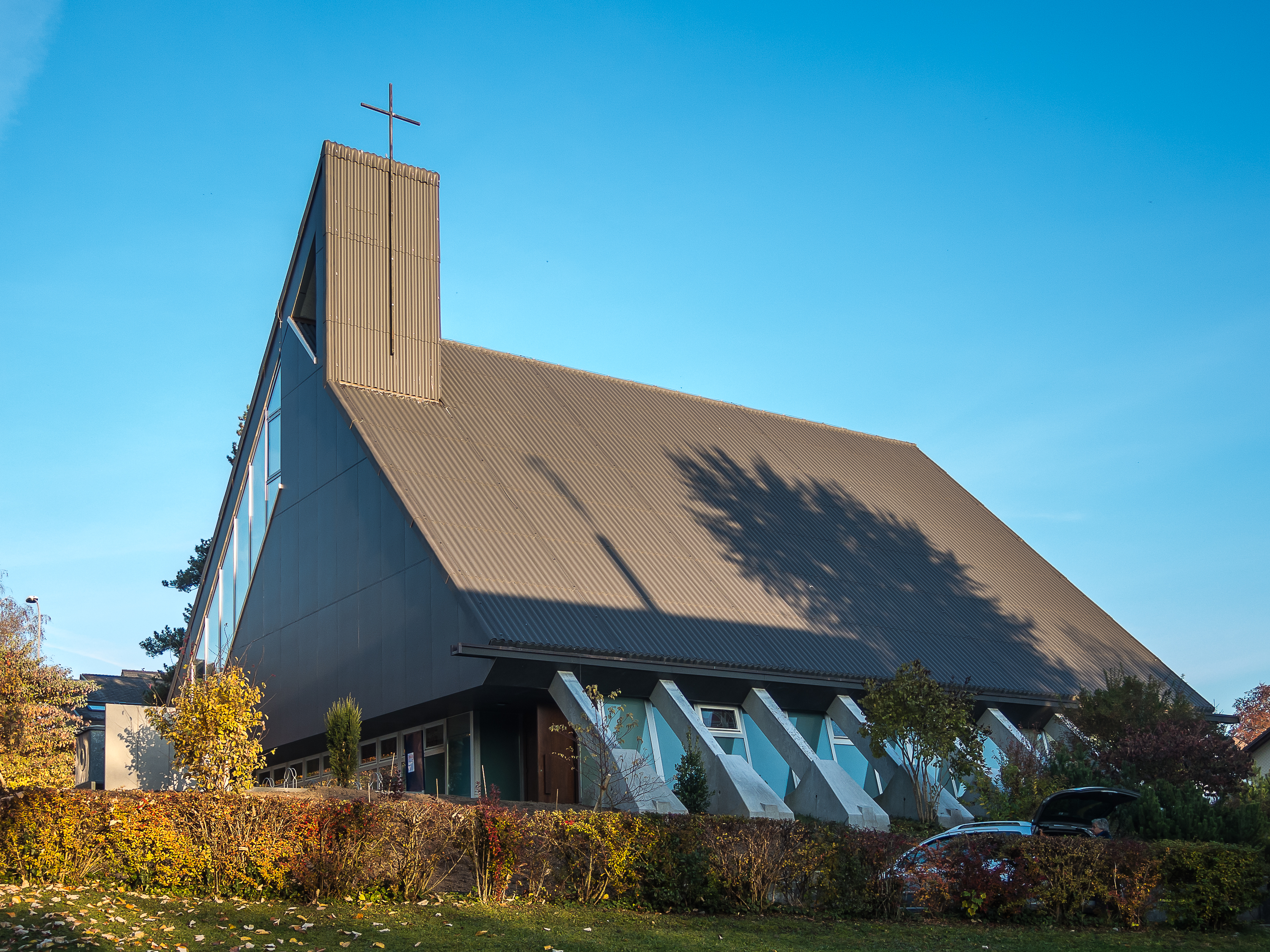 Catholic Church "St. John" of Muensingen CH from West